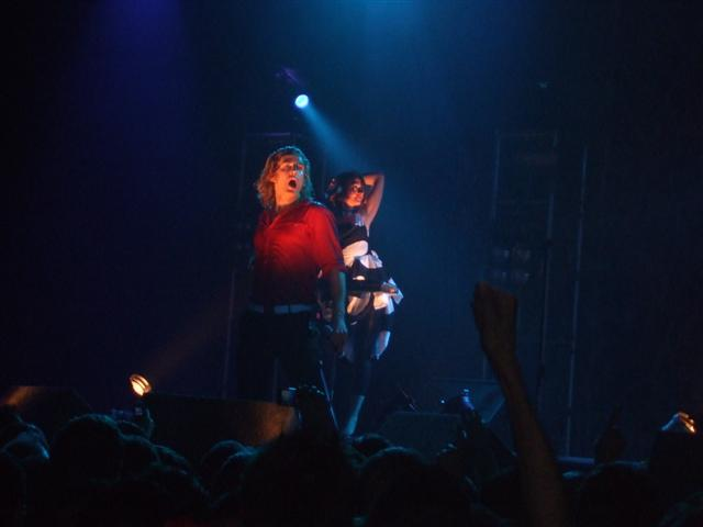 Photo taken at G-A-Y Astoria, London during a performance by BWO.